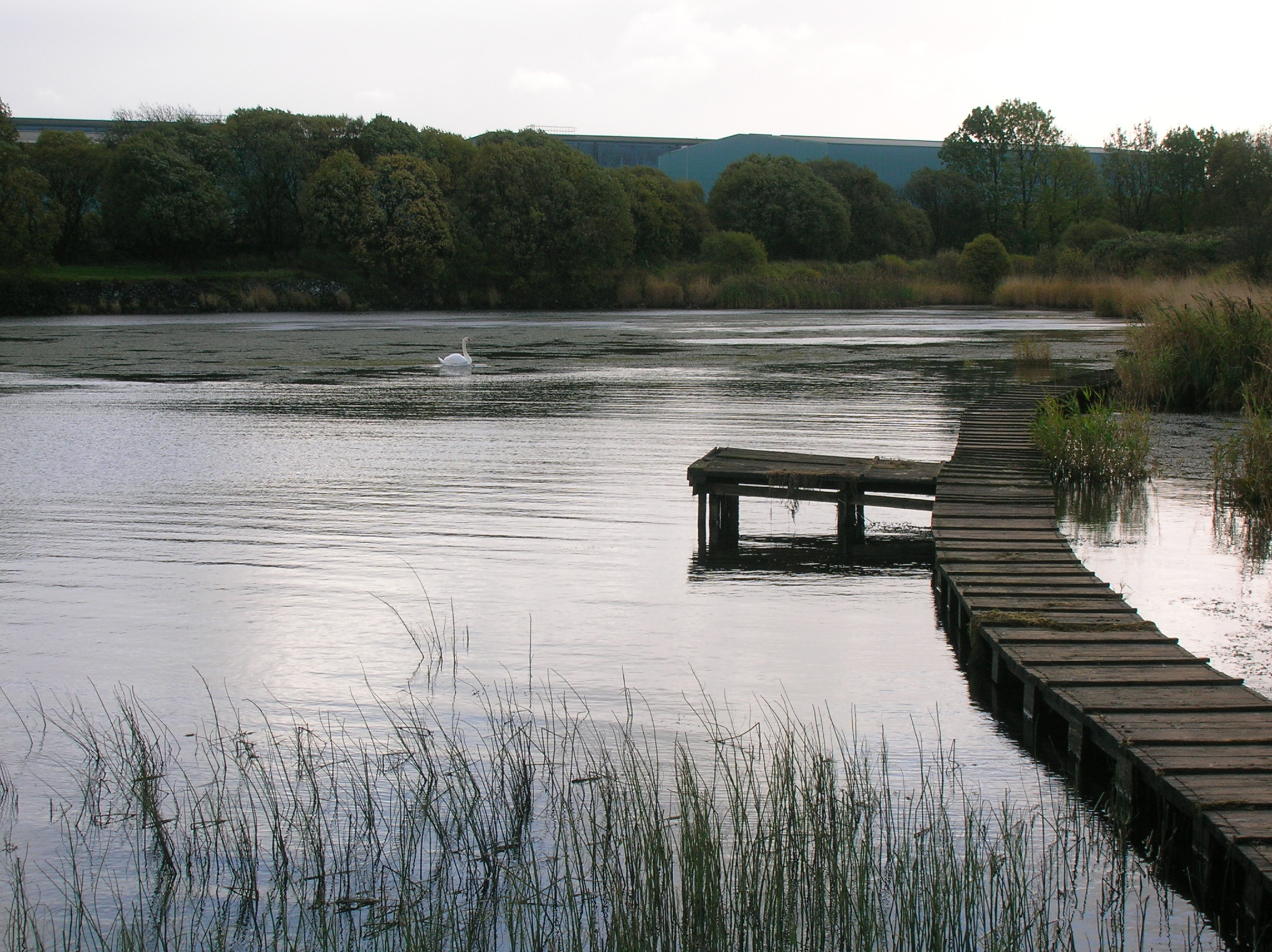 The lagoon-like southern extremity of Kilbirnie Loch, North Ayrshire, Scotland